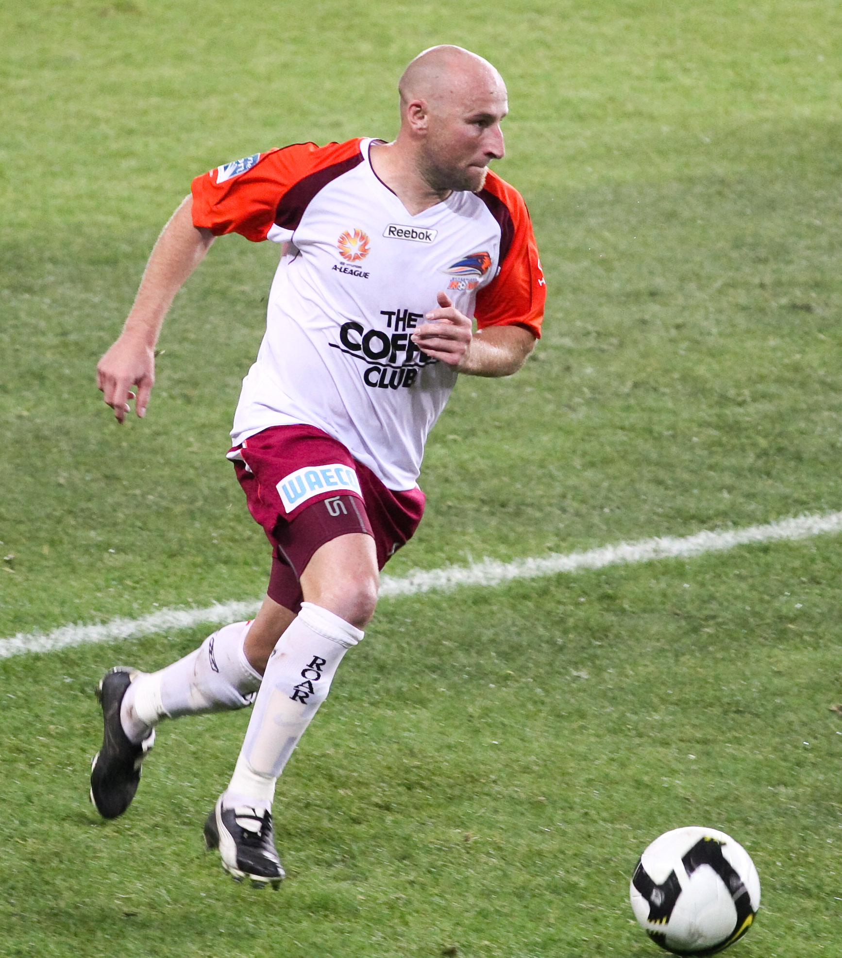 Danny Tiatto playing against Sydney FC in round 7 of the 08-09 A-League